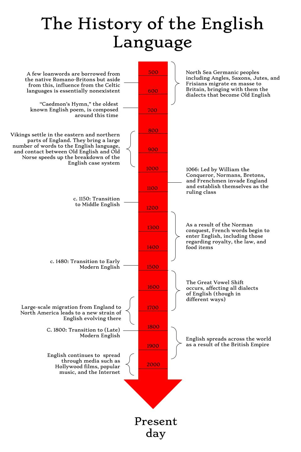 This image shows the history of the English language, from the time Germanic tribes began settling in Britain to the present day. It represents a broad consensus view of the history of the language. As such, fringe notions (such as English being a creole with French or Norse, English being a North Germanic language, and the "Celtic Hypothesis") are not included.